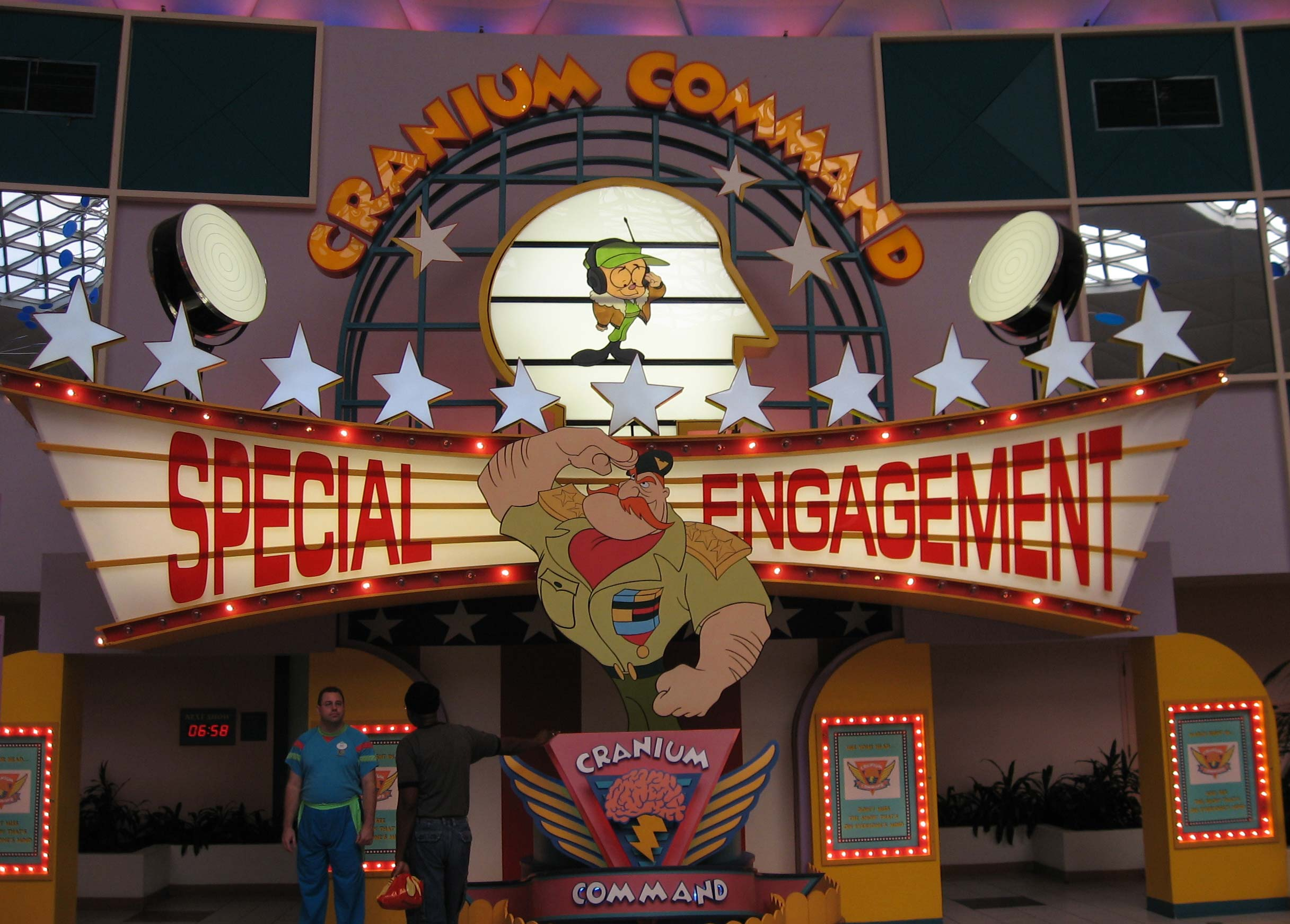 The final Cranium Command marquee seen when the attraction closed.